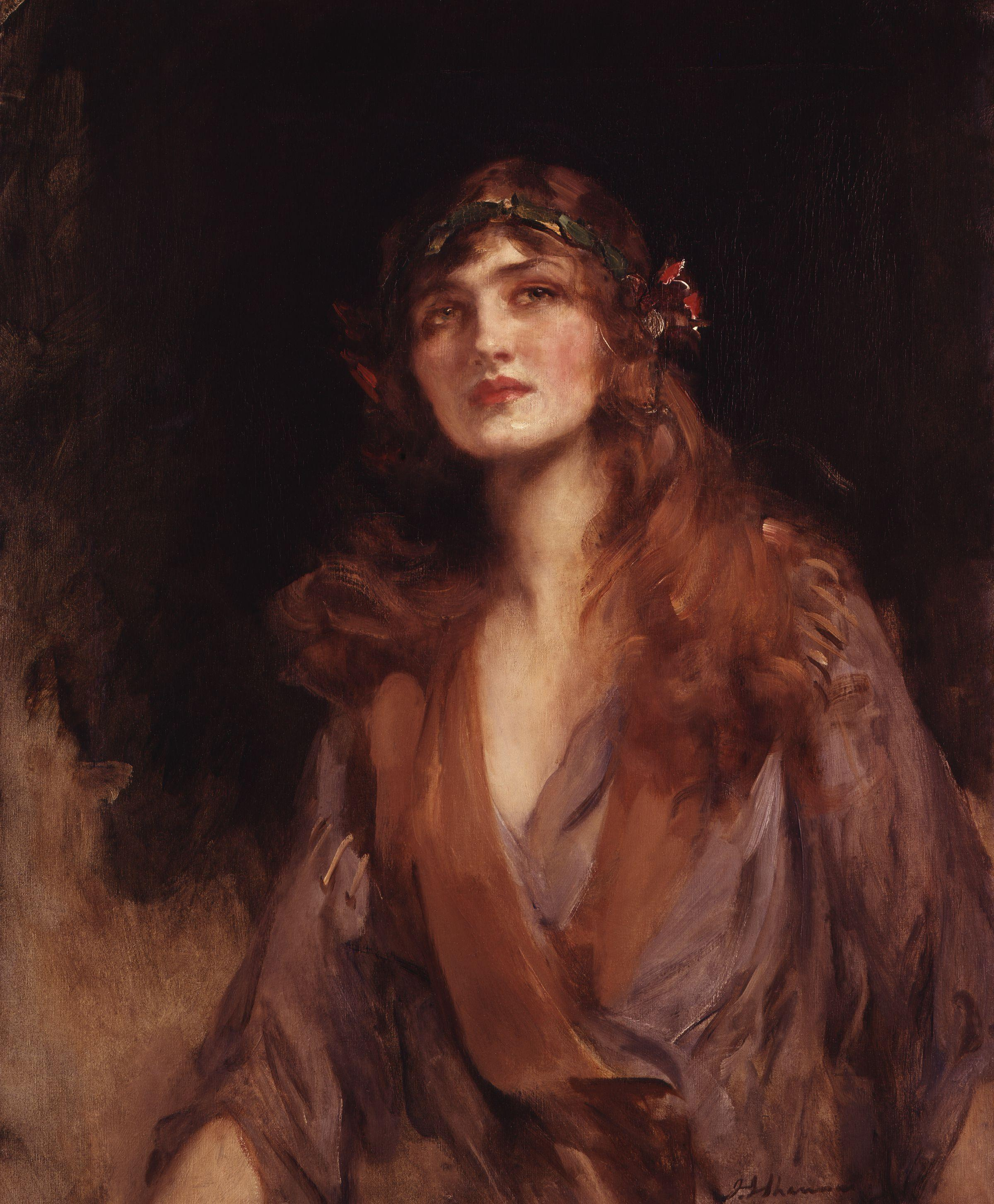 Lily Elsie (Mrs Bullough), by Sir James Jebusa Shannon (died 1923). All images in this batch have been confirmed as author died before 1939 according to the official death date listed by the NPG.